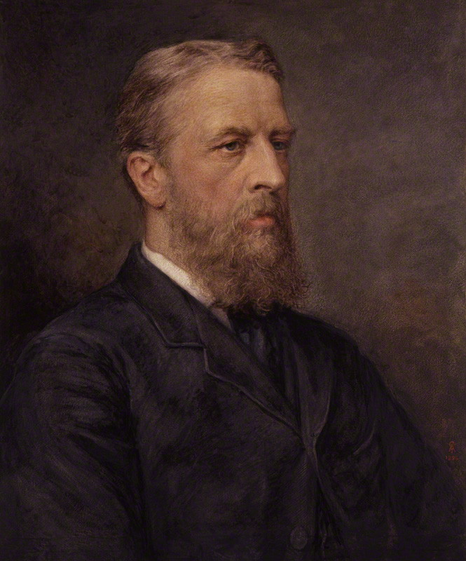 Spencer Compton Cavendish, 8th Duke of Devonshire